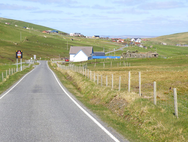 Looking towards Ollaberry The white building is a school by the B9079.